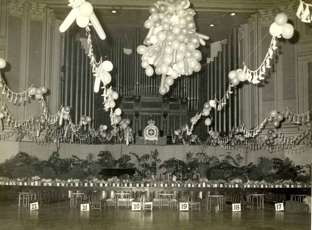 The Brisbane City Hall Ballroom is decorated for a Queensland Police Ball, circa 1965